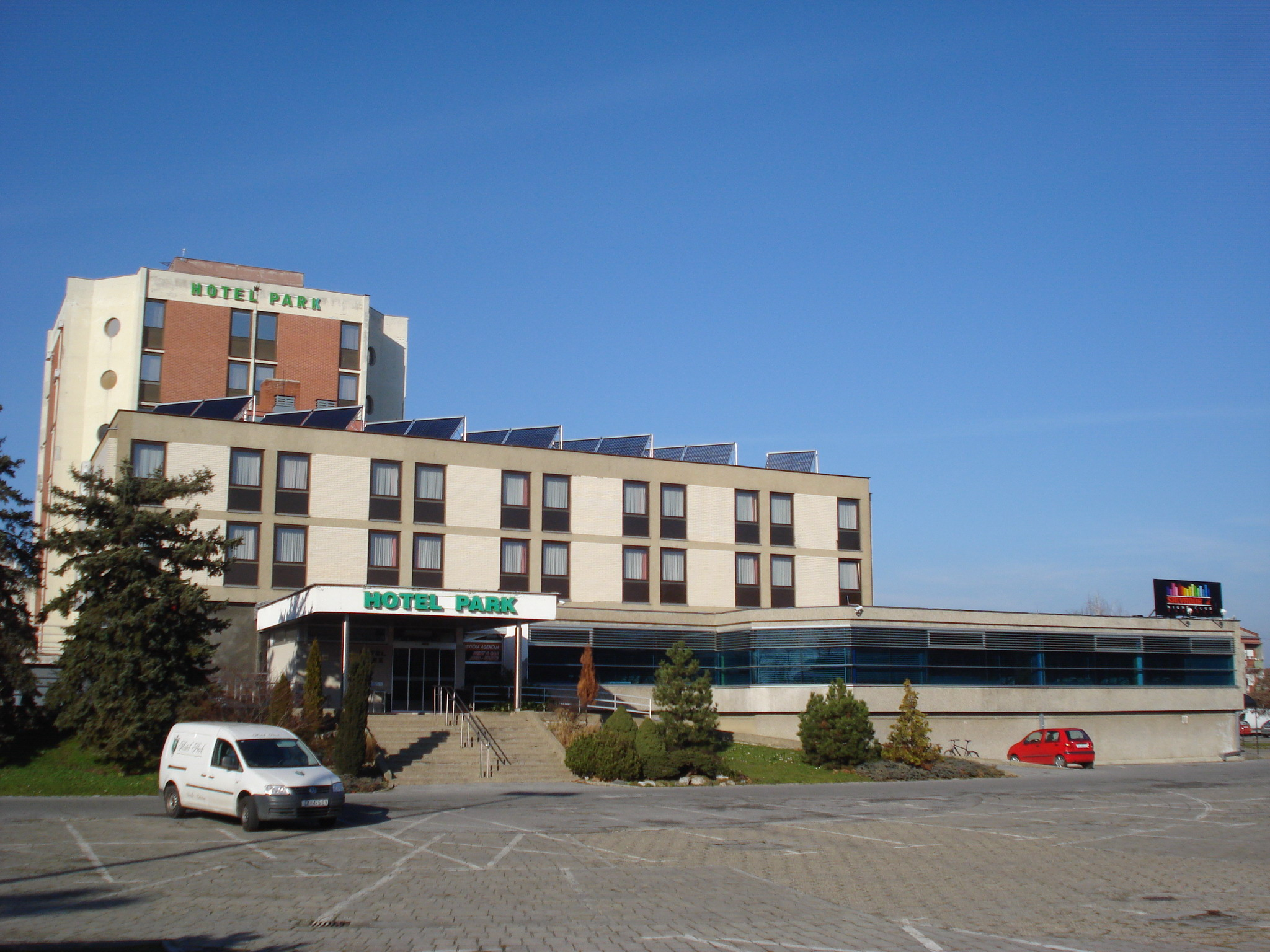 "Park" Hotel in Čakovec, Croatia - south view